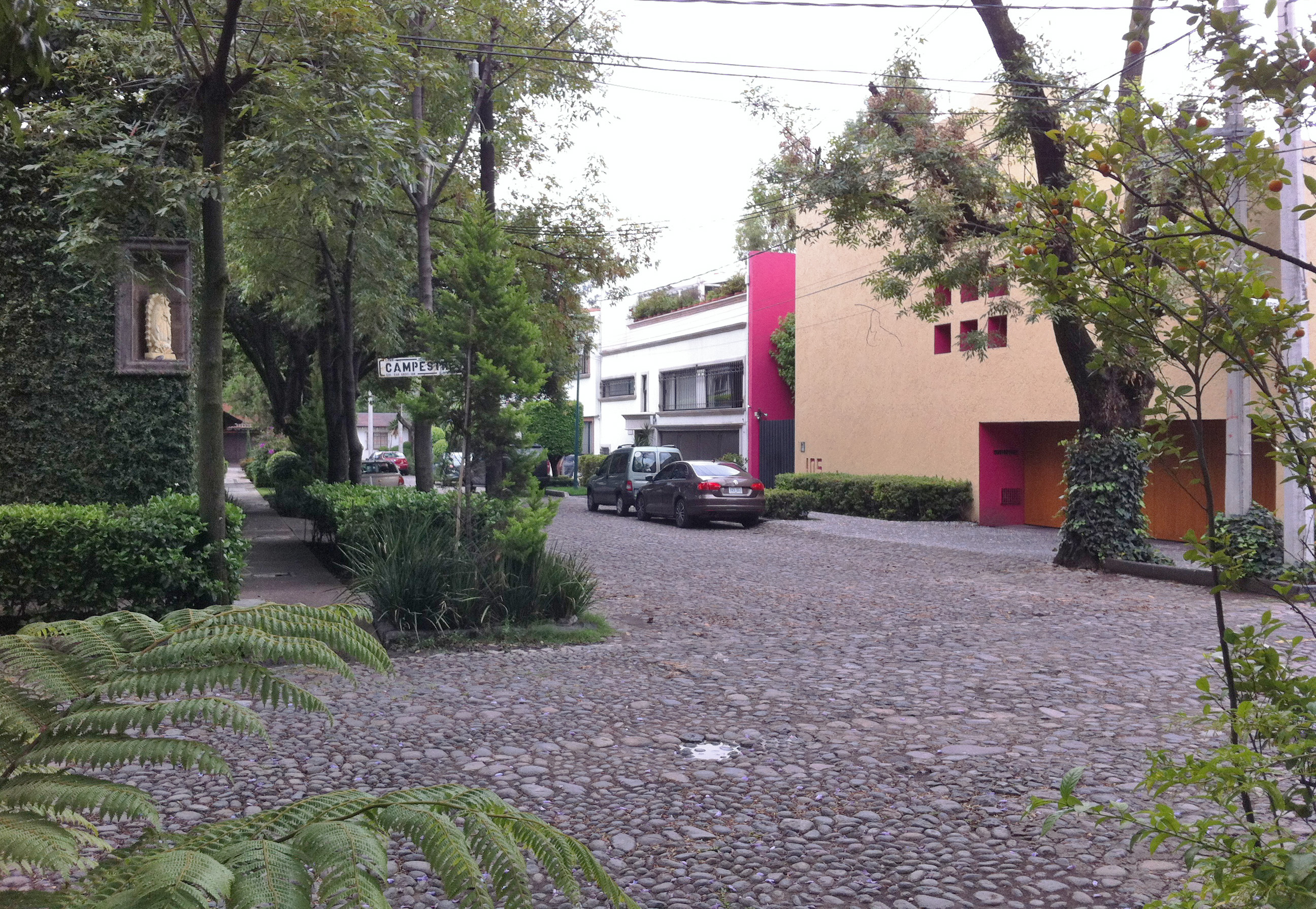 San Ángel Inn neighbourhood, in the south of Mexico City